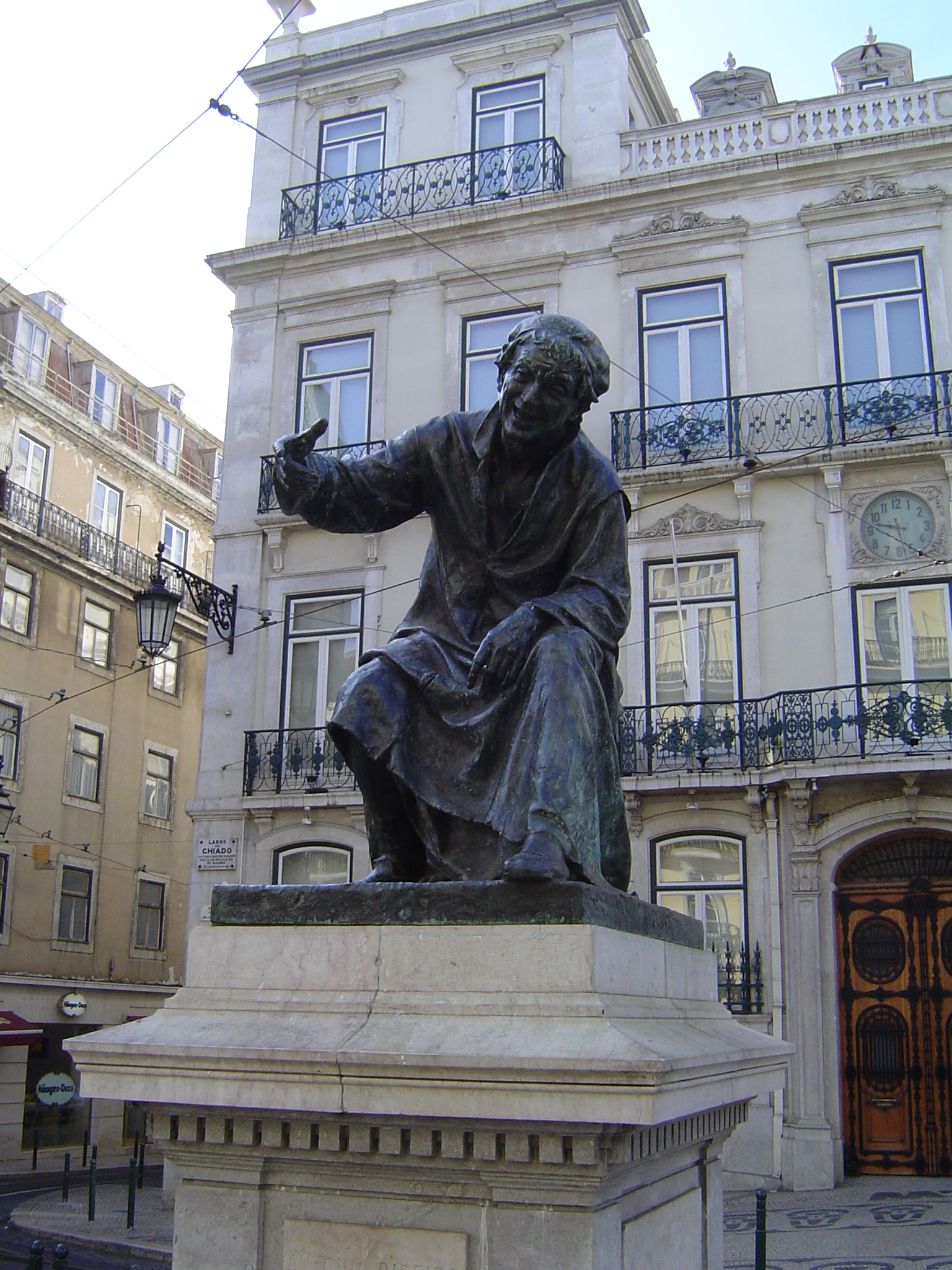 Statue of poet António Ribeiro in the Chiado Square, Lisbon, Portugal